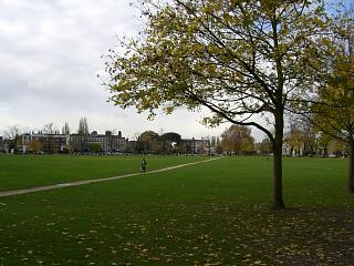 Richmond Green, Surrey, on autumn day taken by me Zir 22:09, 23 November 2006 (UTC)